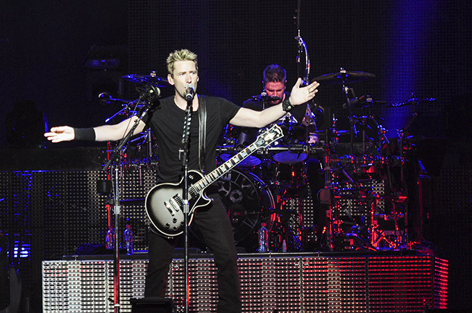 Chad Kroeger playing with Nickelback @ Perth Arena